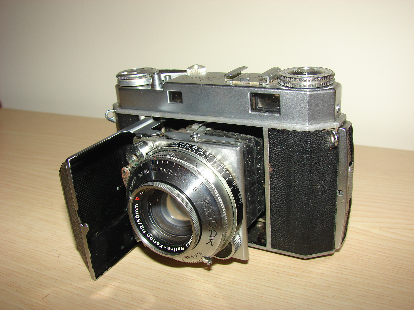 Kodak Retina Series Cameras were produced between 1949 until 1956. It also had the KodaChrome Technology